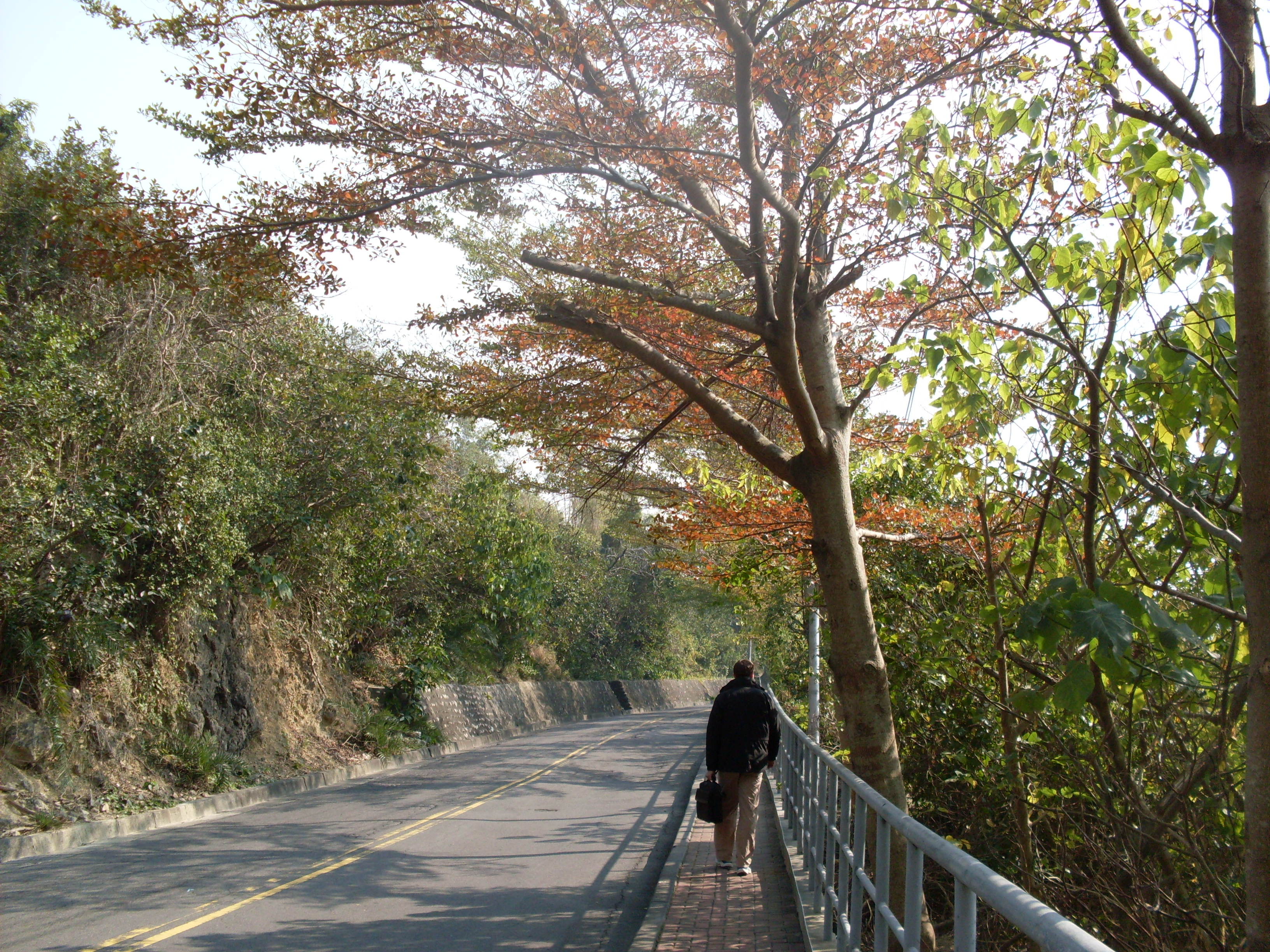 National Sun Yat-sen University